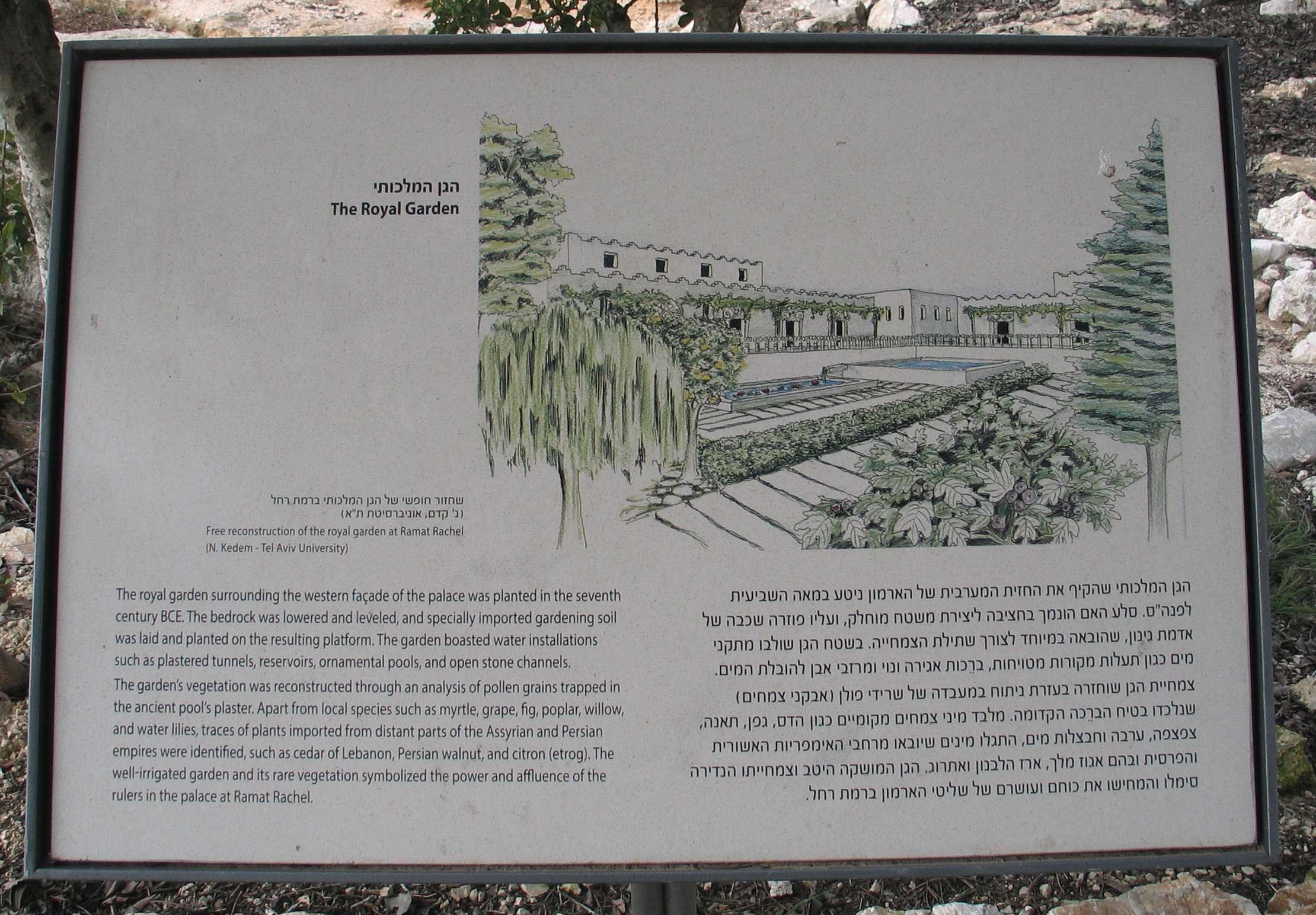 Archaelogical garden in kibutz Ramat Rachel, Israel.